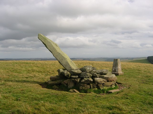 Lang Stane, Dabshead Hill. Seems to be held up by a cairn and iron hoops, a standing stone in the middle of the Dabshead hill fort. A wonderful viewpoint.